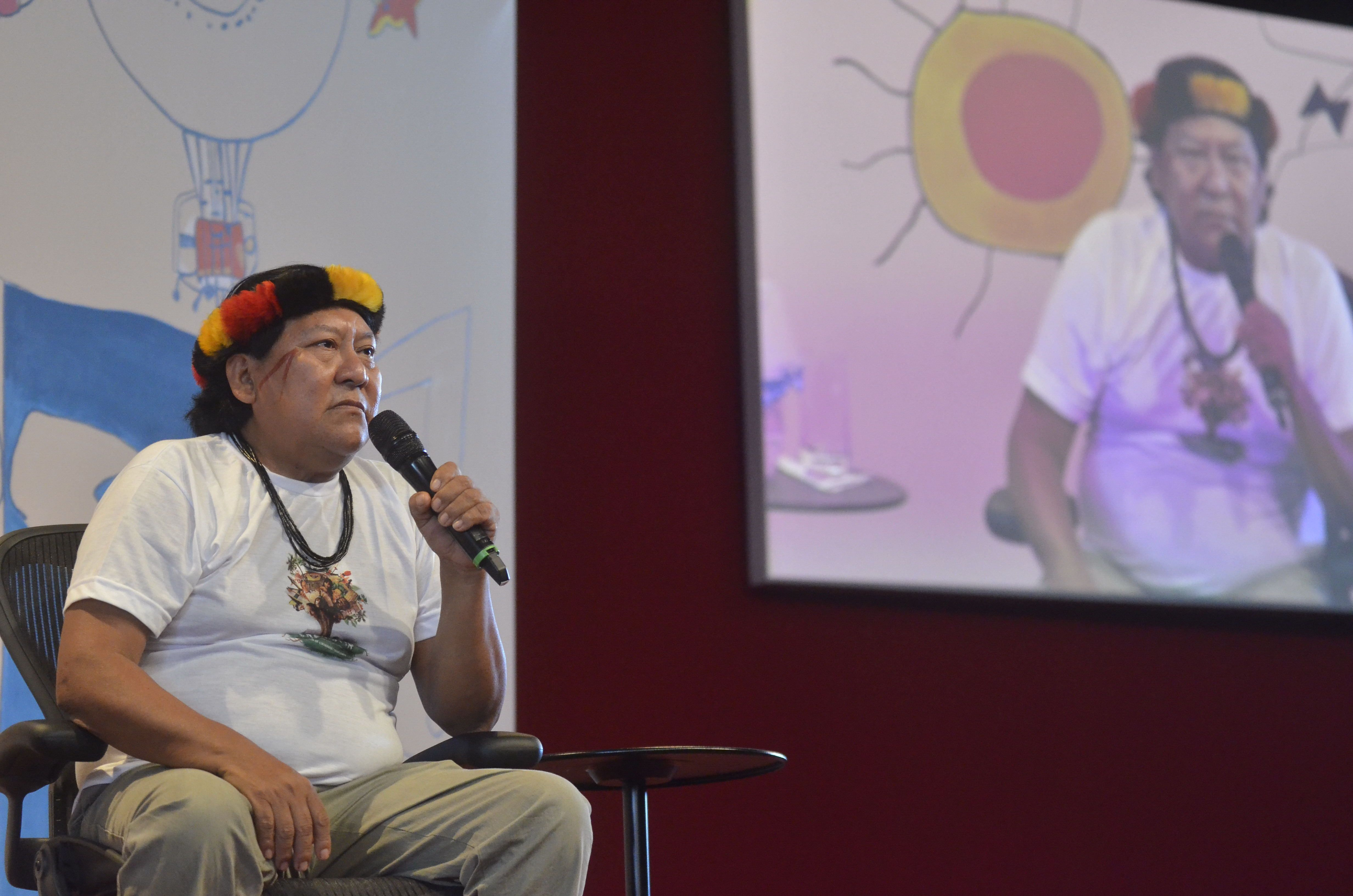 Davi Kopenawa at 2014 International Literary Festival of Paraty. Photo by Fernando Frazão/Agência Brasil CCBY3.0.